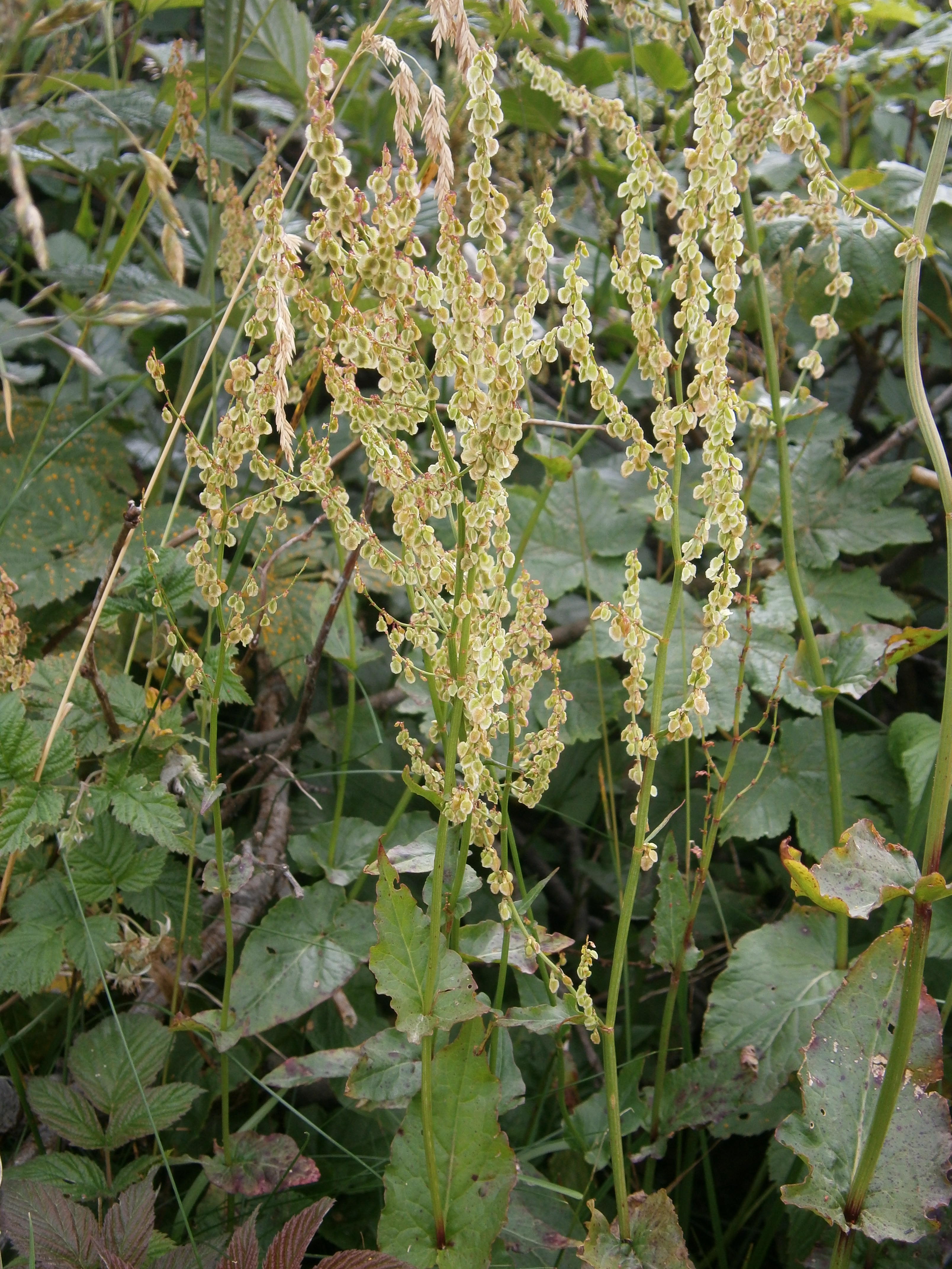 Rumex alpestris